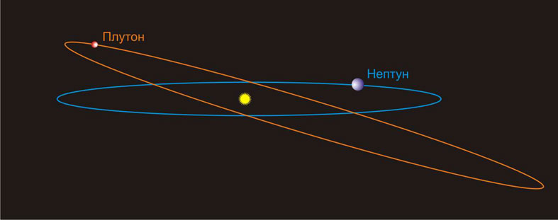 Pluto orbit.